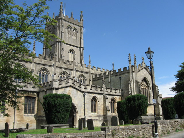 Church of St. Mary the Virgin, Calne